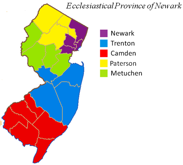 The Province of Newark in the Catholic Church encompasses the entire state of New Jersey, USA.